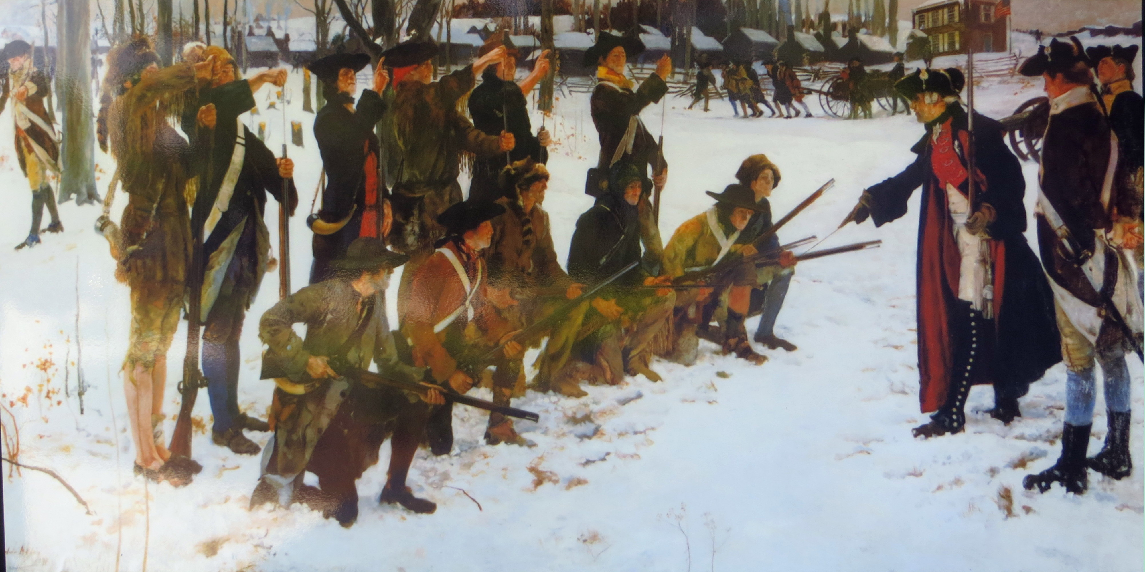 Edwin Austin Abbey (1852-1911) painting of Baron Steuben drilling American troops at Valley Forge in 1778. Flipped from the source copy.